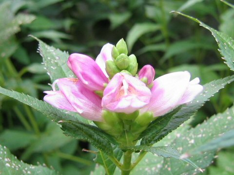 Chelone lyonii